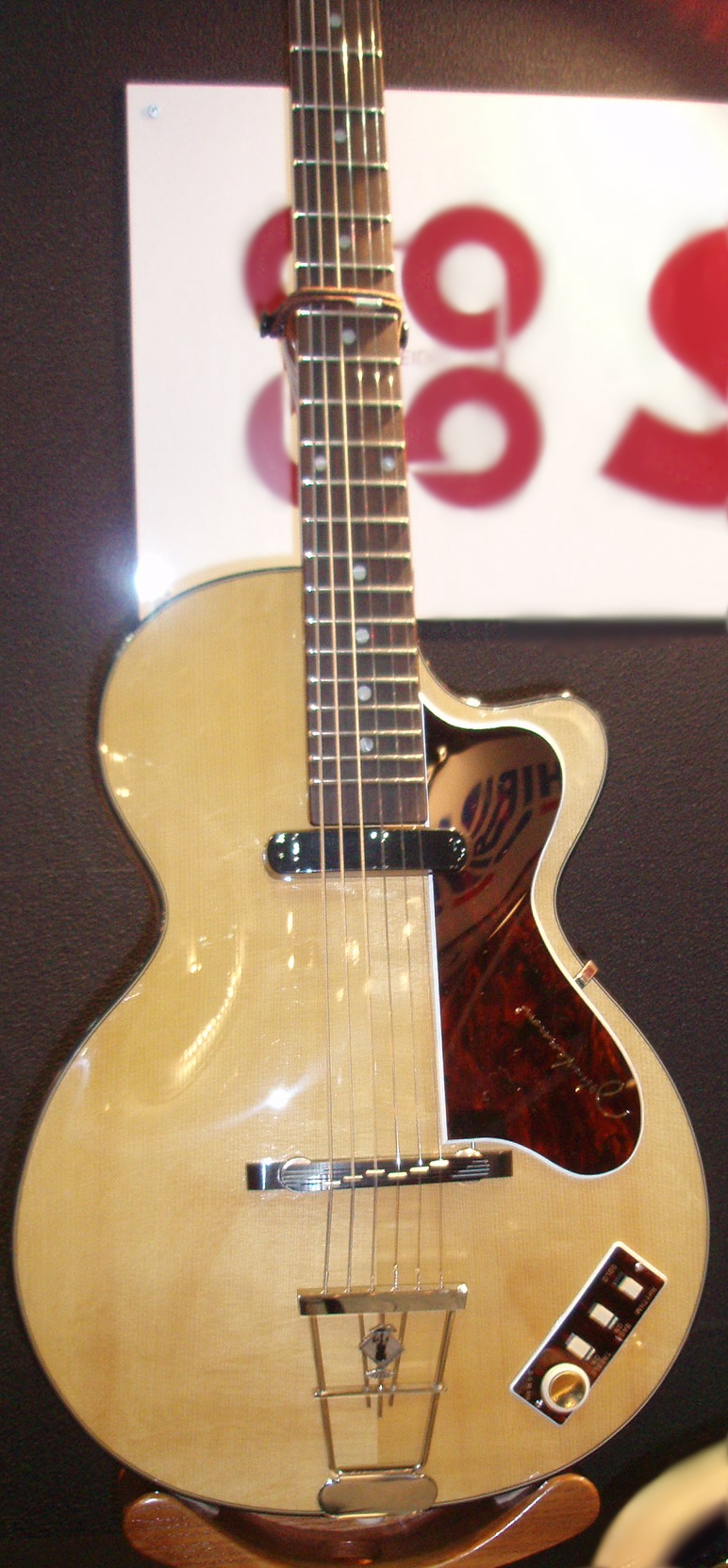 Höfner Club40 John Lennon Edition (Limited)